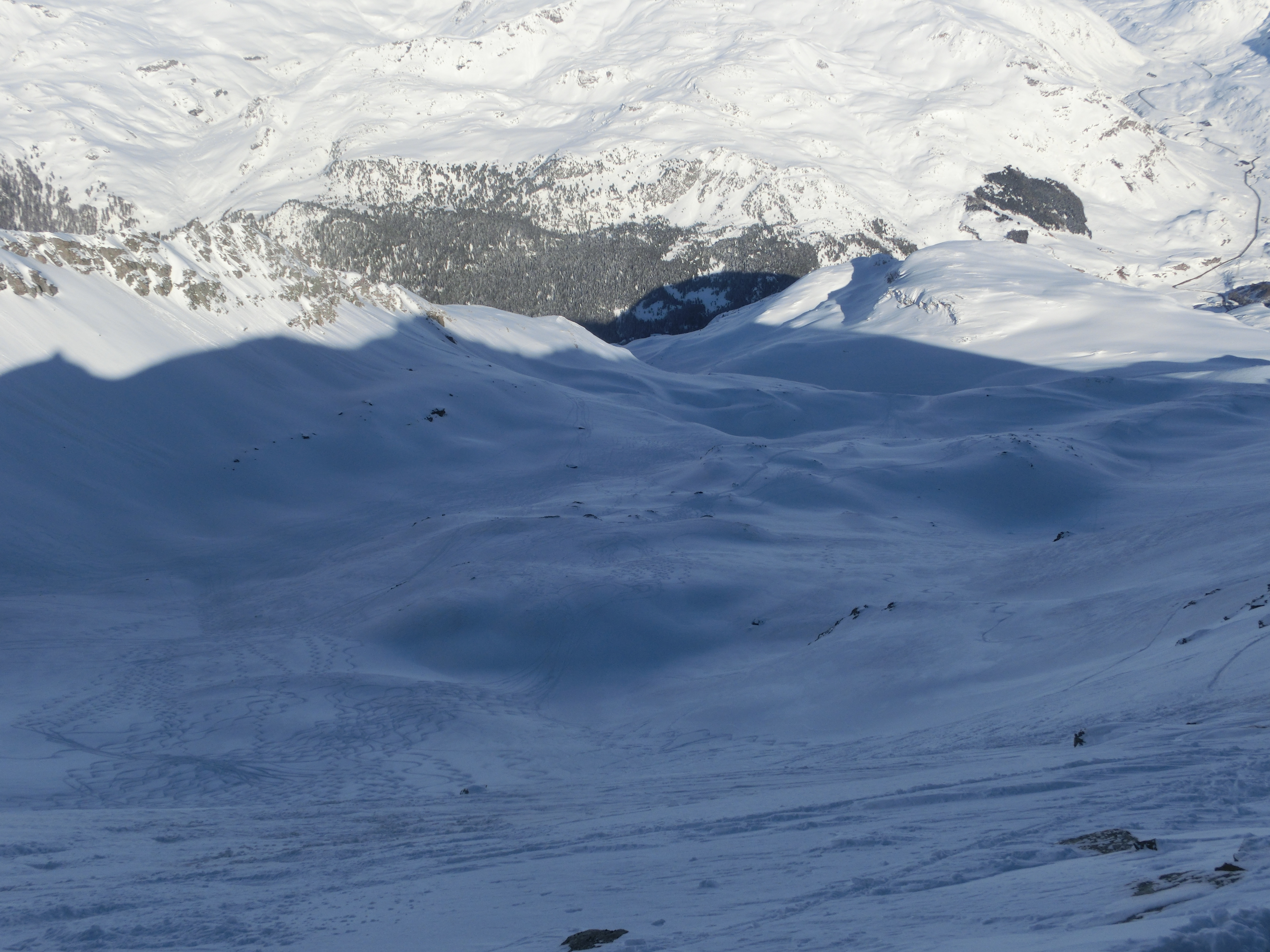 Tracks in Val Gronda as seen from Piz Surparé, Mulegns, Bivio, Grison, Switzerland Rumantsch: Fastez da skis ainten la Val Gronda, piglia se digl Piz Surparé, Mulegns, Beiva, Grischun, Svizra